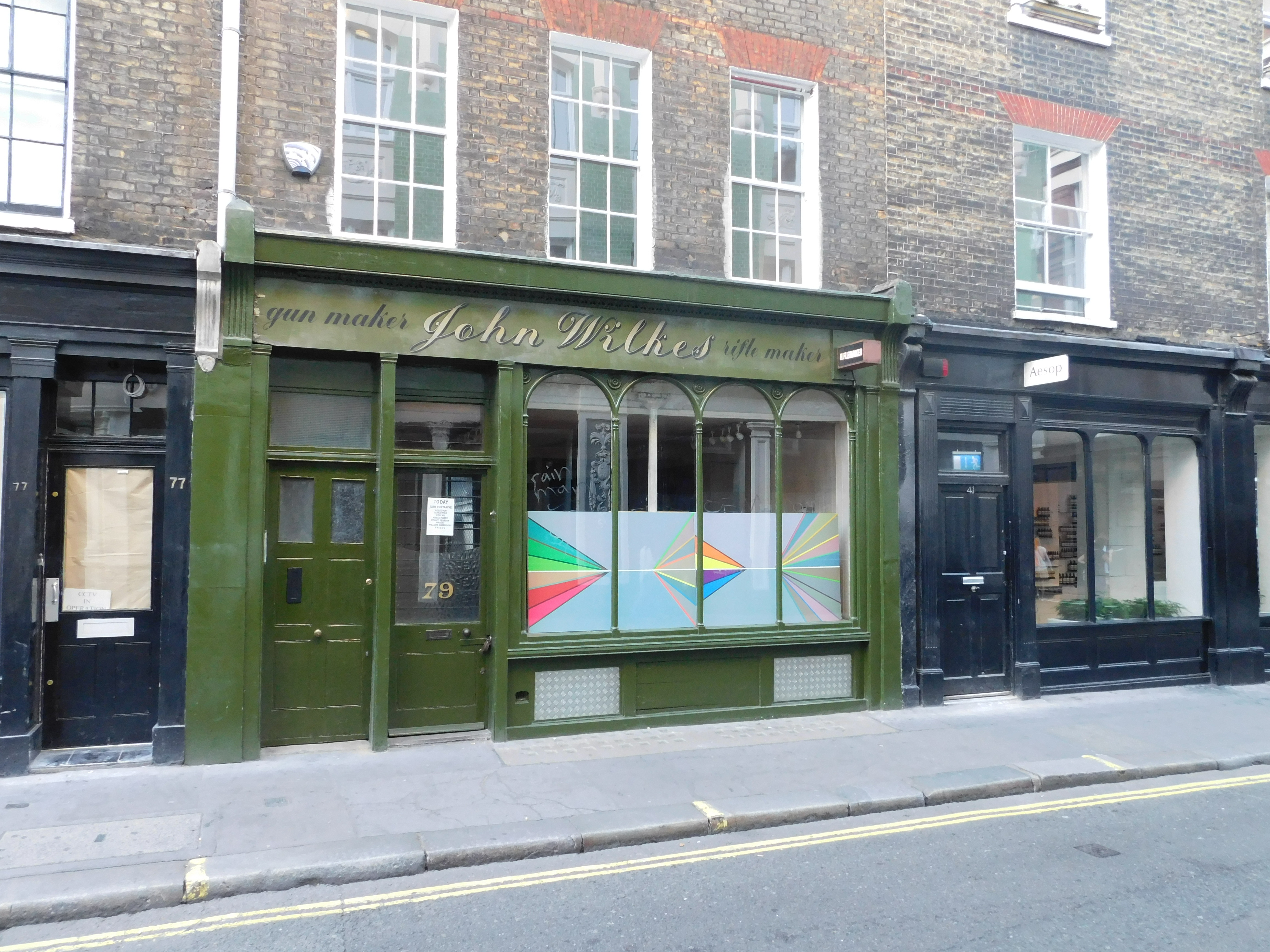 Soho: Beak Street